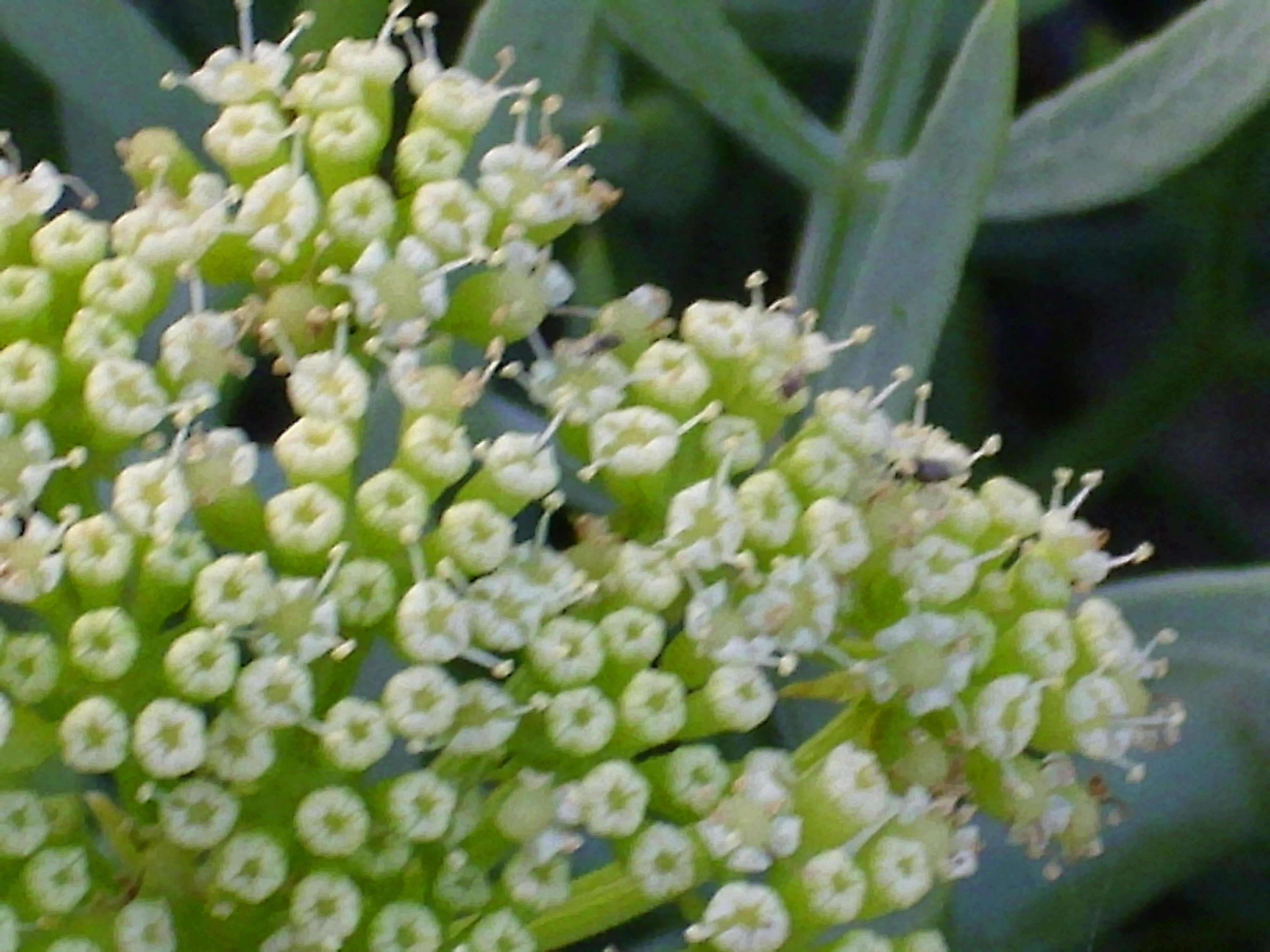 Crithmum maritimum flowers close up, La Mata, Torrevieja, Alicante, Spain.